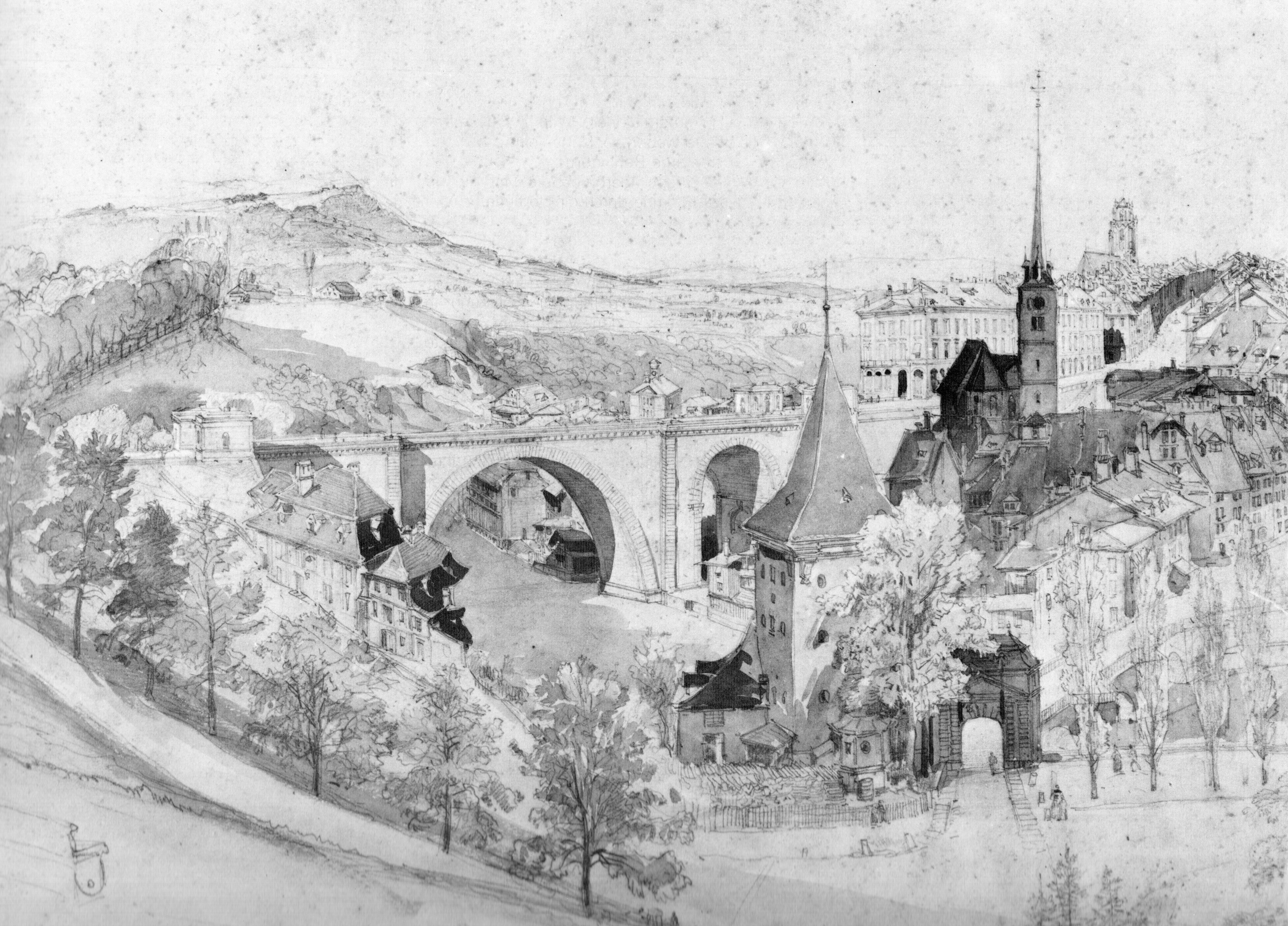 Nydeggbrücke, Klösterlistutz and Mattequartier, Berne, Switzerland; circa 1850.